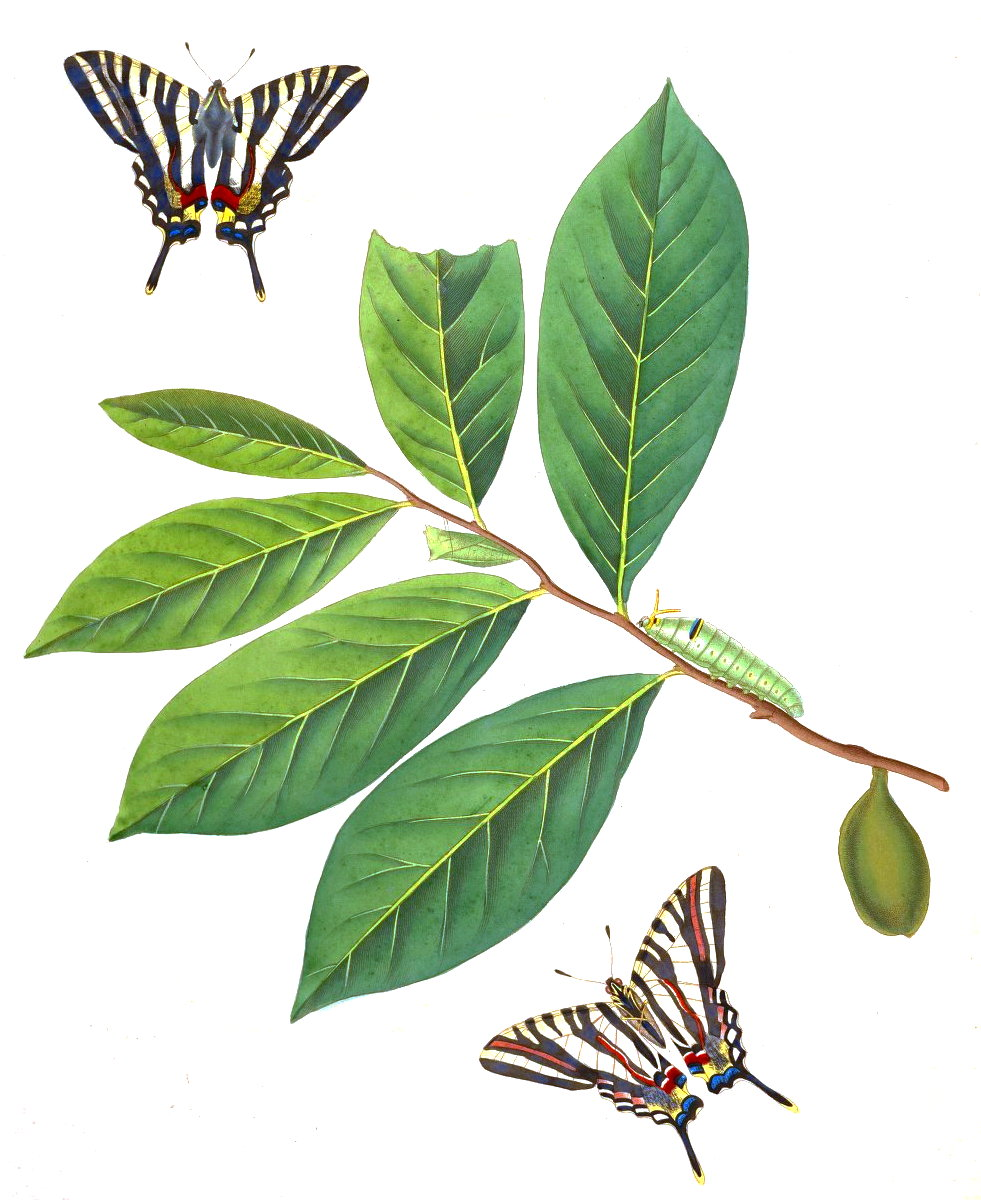 Zebra Swallowtail , Eurytides marcellus, on Pawpaw, Asimina triloba, hand-colored engraving